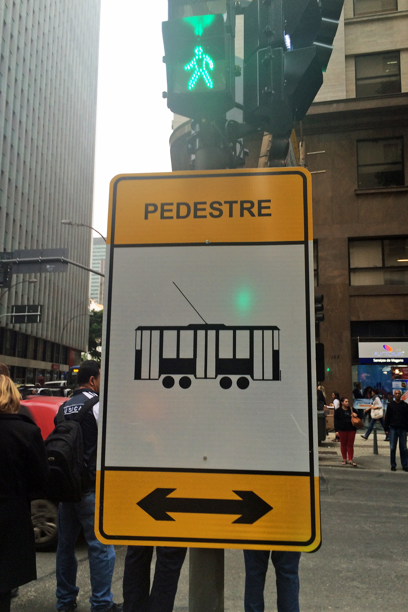 VLT Rio de Janeiro, pedestrian crossing sign at Sete de Setembro station, Rio Branco Ave.